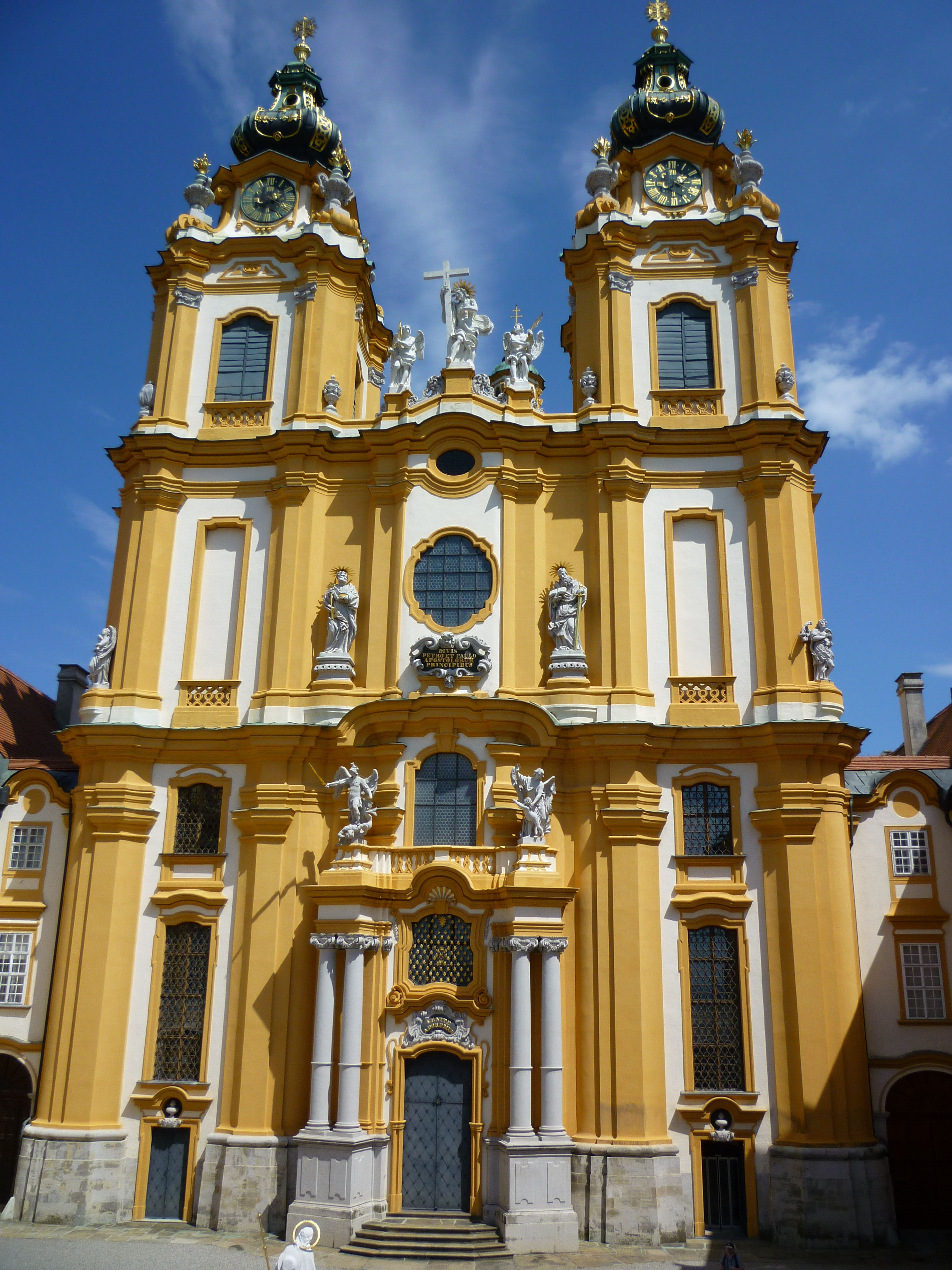 Church façade of Melk Abbey